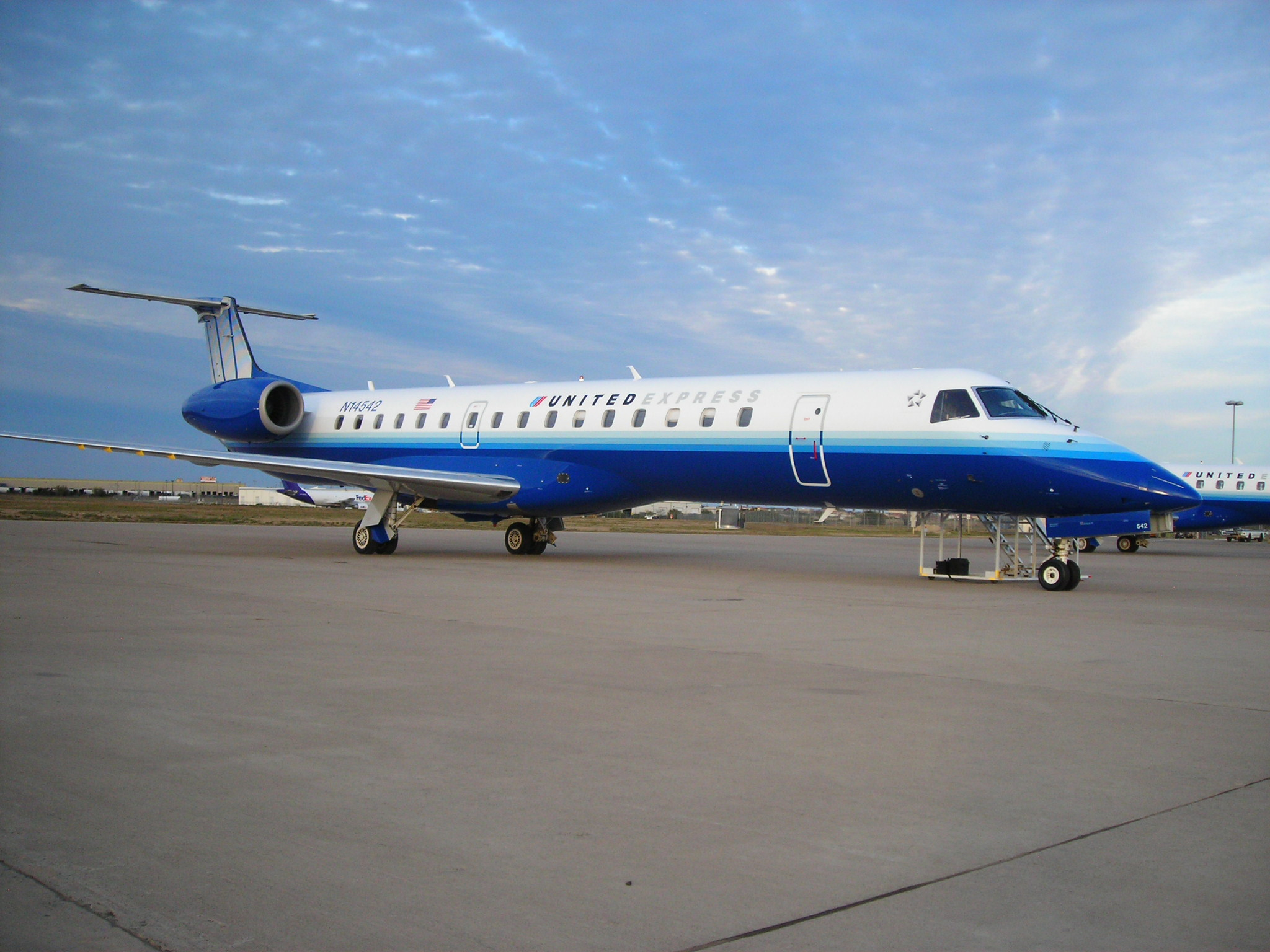 One of ExpressJet's first ERJ-145's to receive United Express paint.